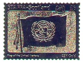 A "gold" stamp, purportedly from Staffa island in Scotland, believed to have been created by Clive Feigenbaum or companies associated with him.